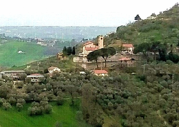 Ariano Irpino, Saint Liberatore countryside